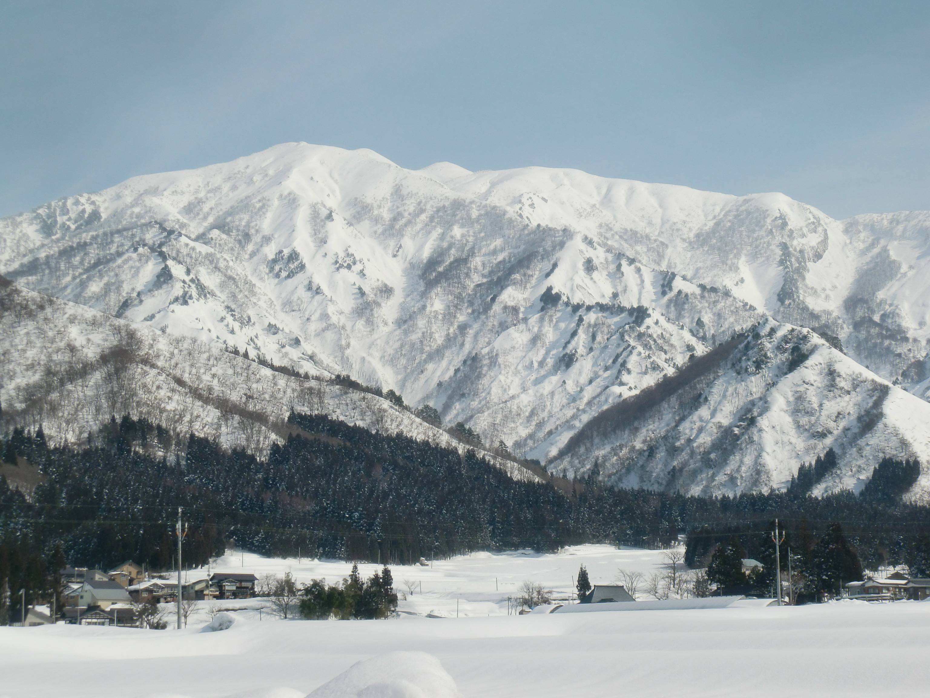 The WNW face of Mount Makihata and Mount Warimeki & Mount Kogara (710m)。